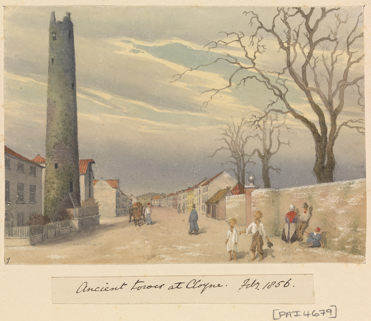 'Ancient tower at Cloyne, Feby 1856' [Ireland].